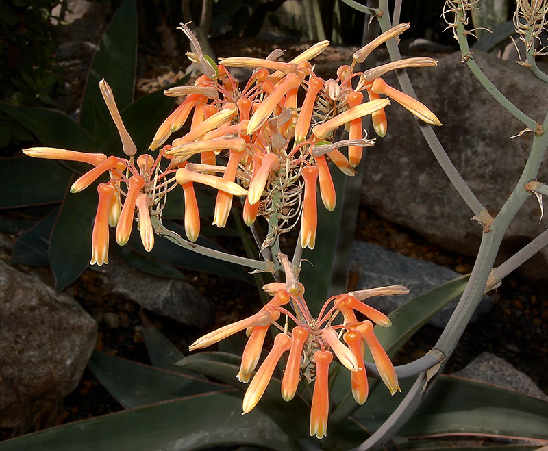 Aloe striata in National M. M. Grishko botanical garden (Kiev, Ukraine)